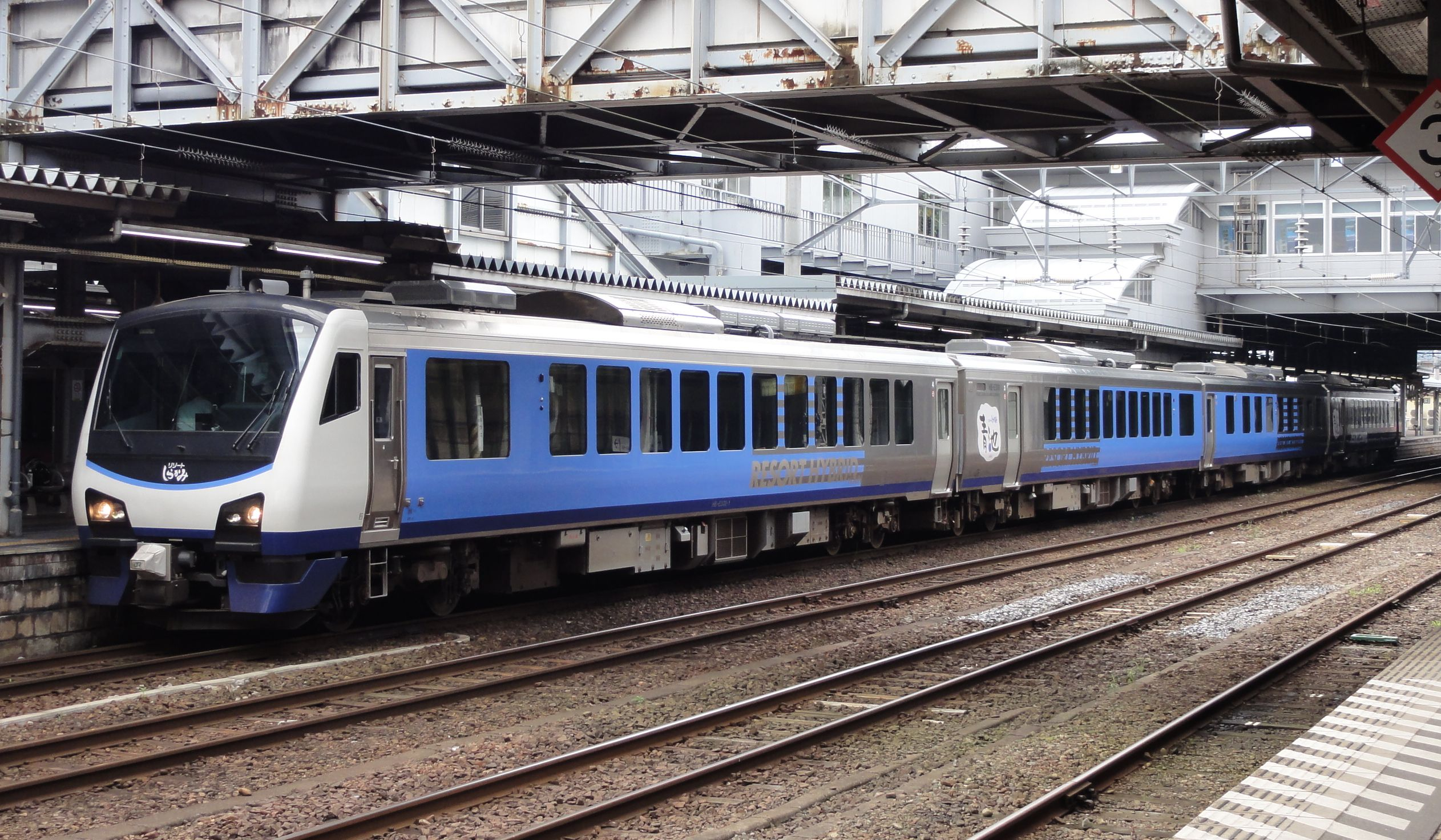 JR East HB-E300 series 4-car "Resort Shirakami - Aoike" hybrid diesel multiple unit at Akita Station